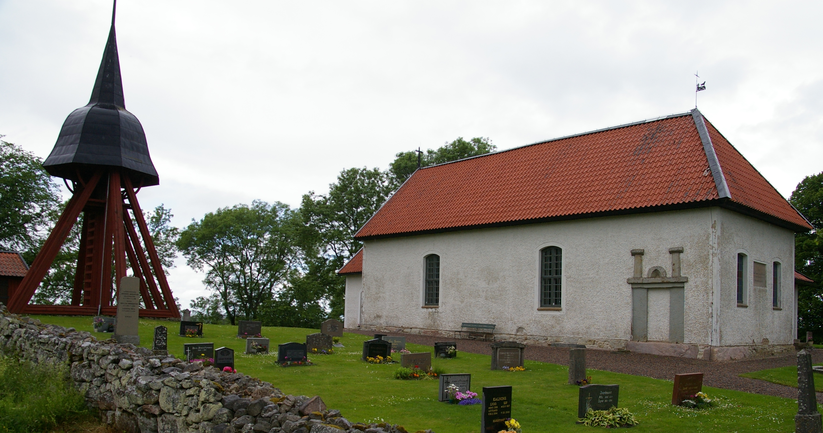 Ugglums kyrka (Swedish:Church of Ugglum) in Västergötland, Sweden. Built in 1820 and renovated 1914.